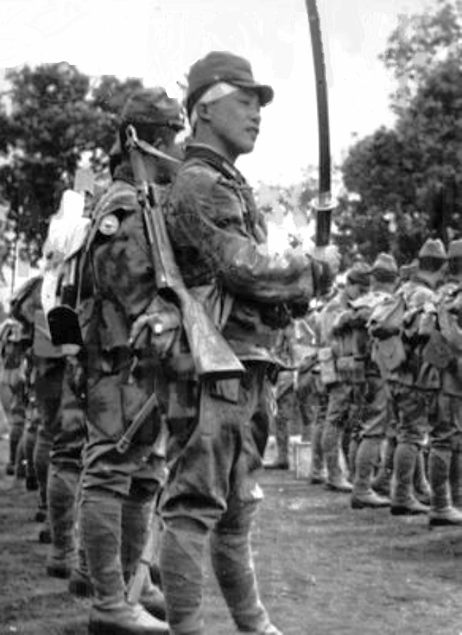 a Giretsu Kuteitai Paratrooper armed with a Type 100 submachine gun and a katana sword, Kengun Airfield May 1945.